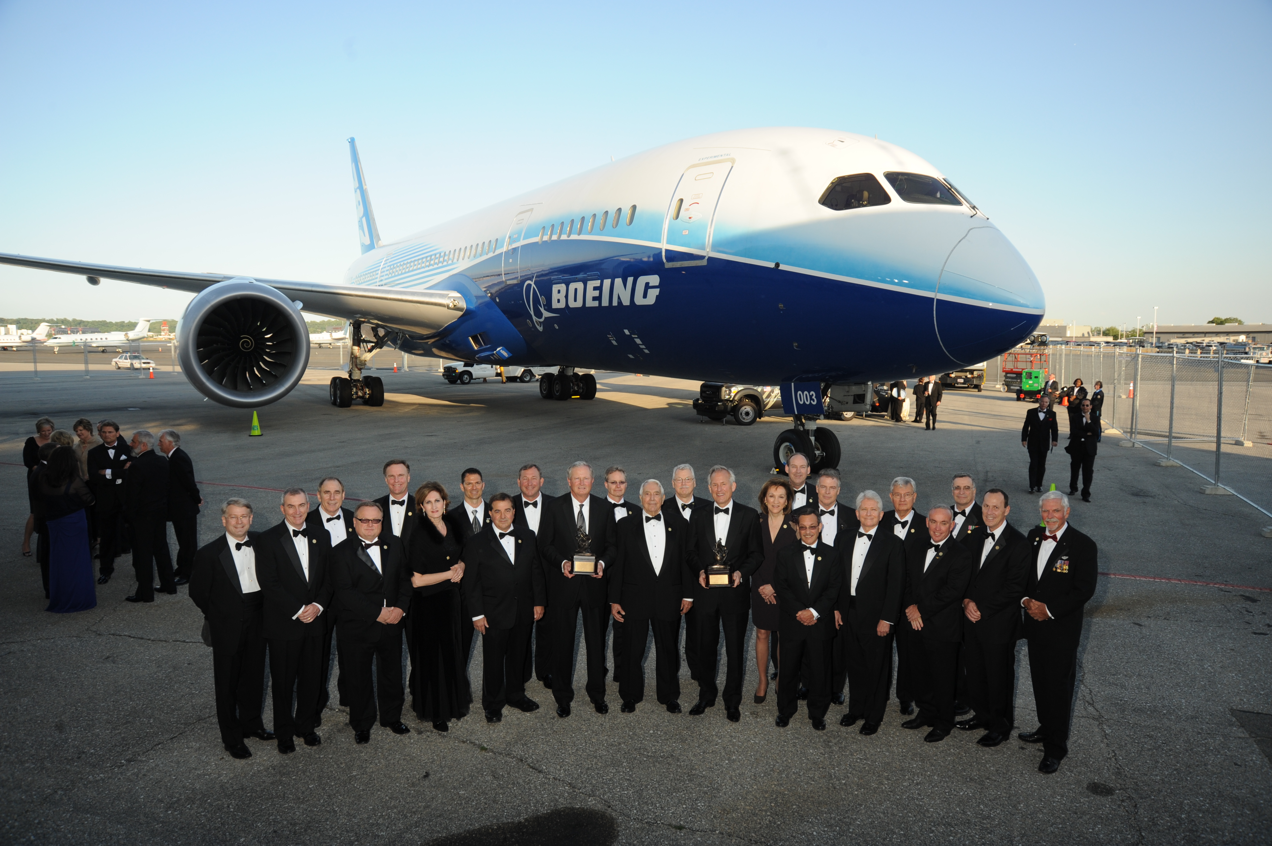 This is a photo of the Boeing 787, the recipient of the 2011 National Aeronautic Assocation Robert J. Collier Trophy and members of the Selection Committee for the trophy.